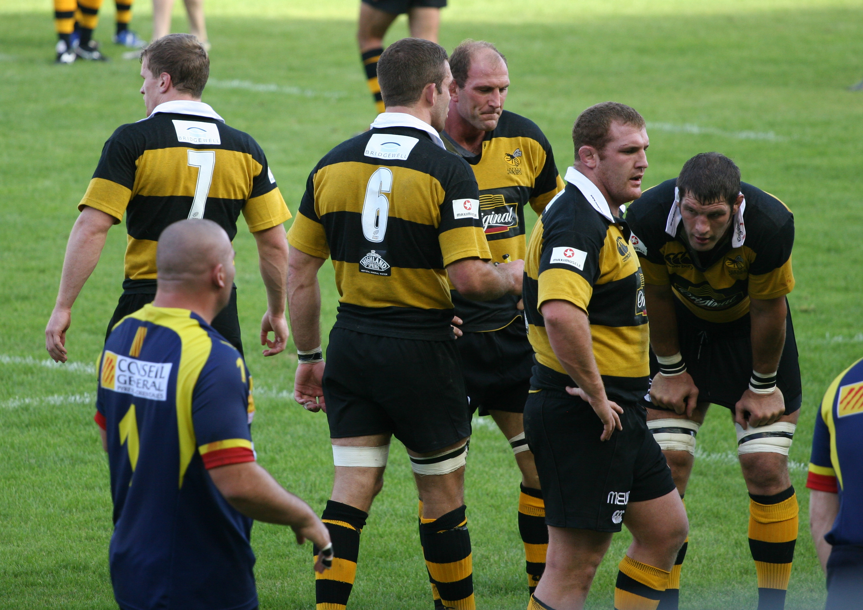 Players of the London Wasps during the H-cup match against Perpignan on the 28th of october 2006.